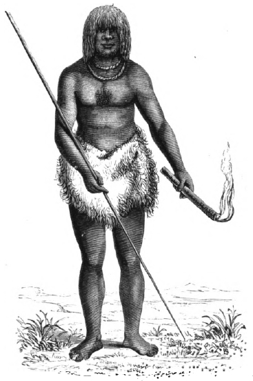 Illustration from The Last of the Tasmanians" - Manalagana